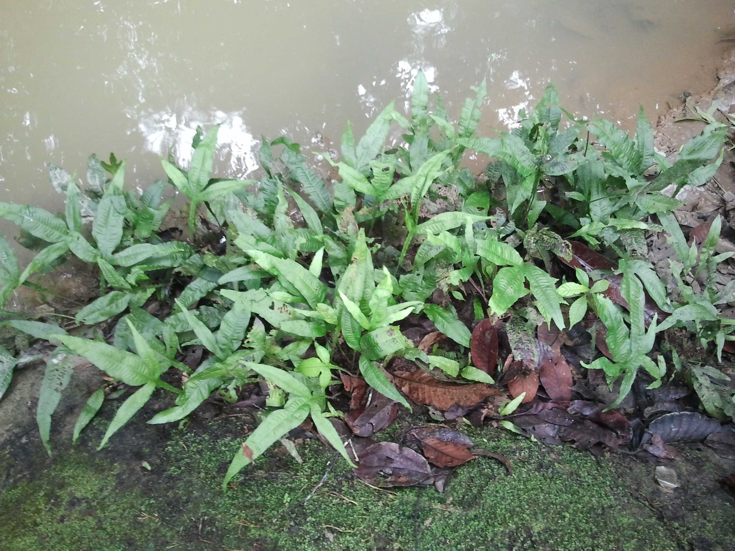 Java fern (Microsorum pteropus) in West Peninsular Malaysia